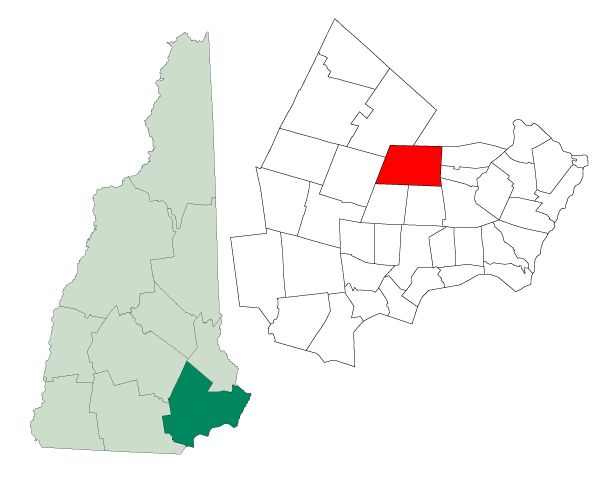 Changed Rockingham_Portsmouth_NH.PNG to highlight Epping